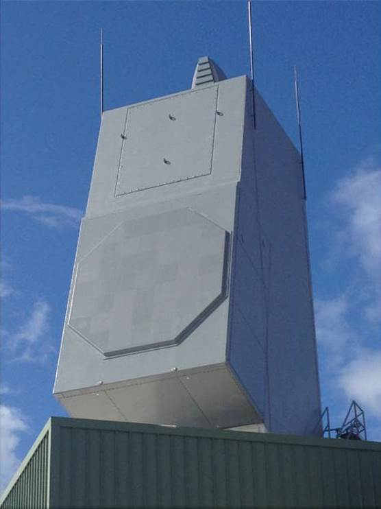 AN/SPY-6(V) Air and Missile Defense Radar (AMDR) being proof-tested off the west coast of Hawaii.